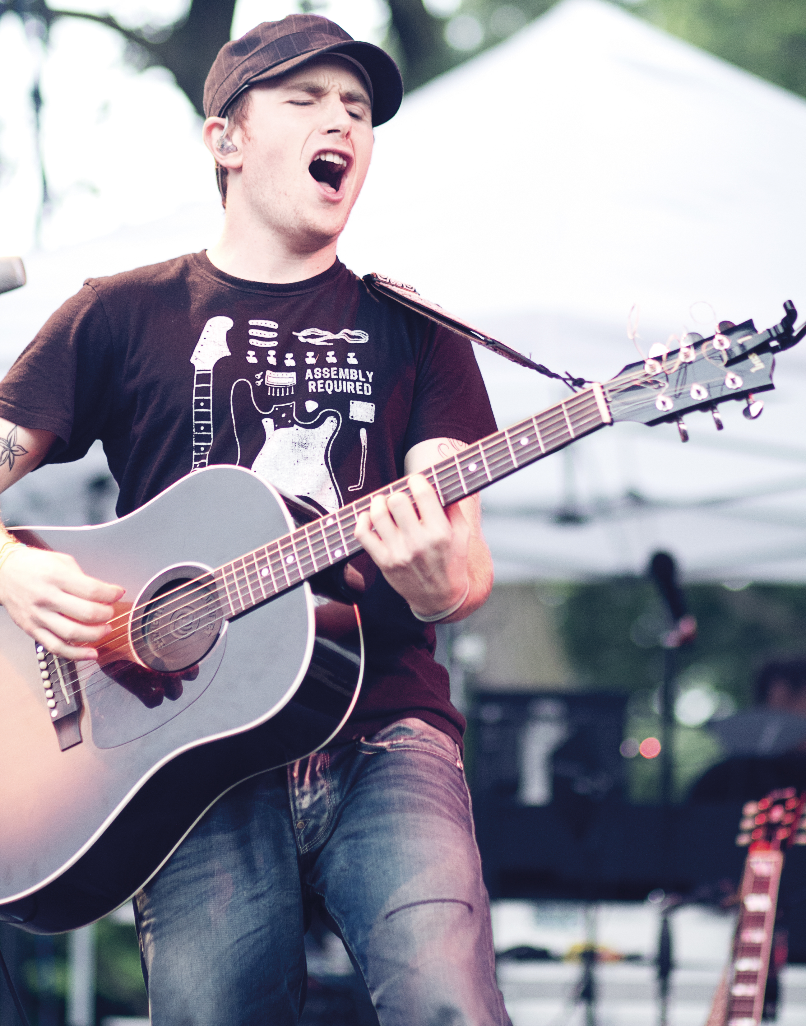 Musician Jason Reeves performs onstage at the Lincoln Park Zoo in Chicago, Illinois